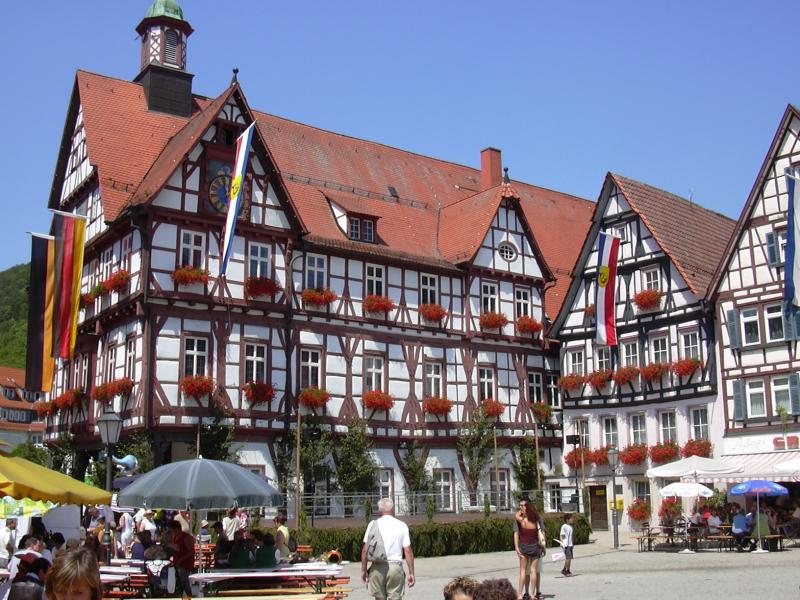 Market place and town hall of Bad Urach during a local festivity ("shepherds' run")